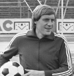 Hugo Broos (left), François "Swat" Van der Elst (middle) en Eric Gerets during a training of the Belgian national football team.